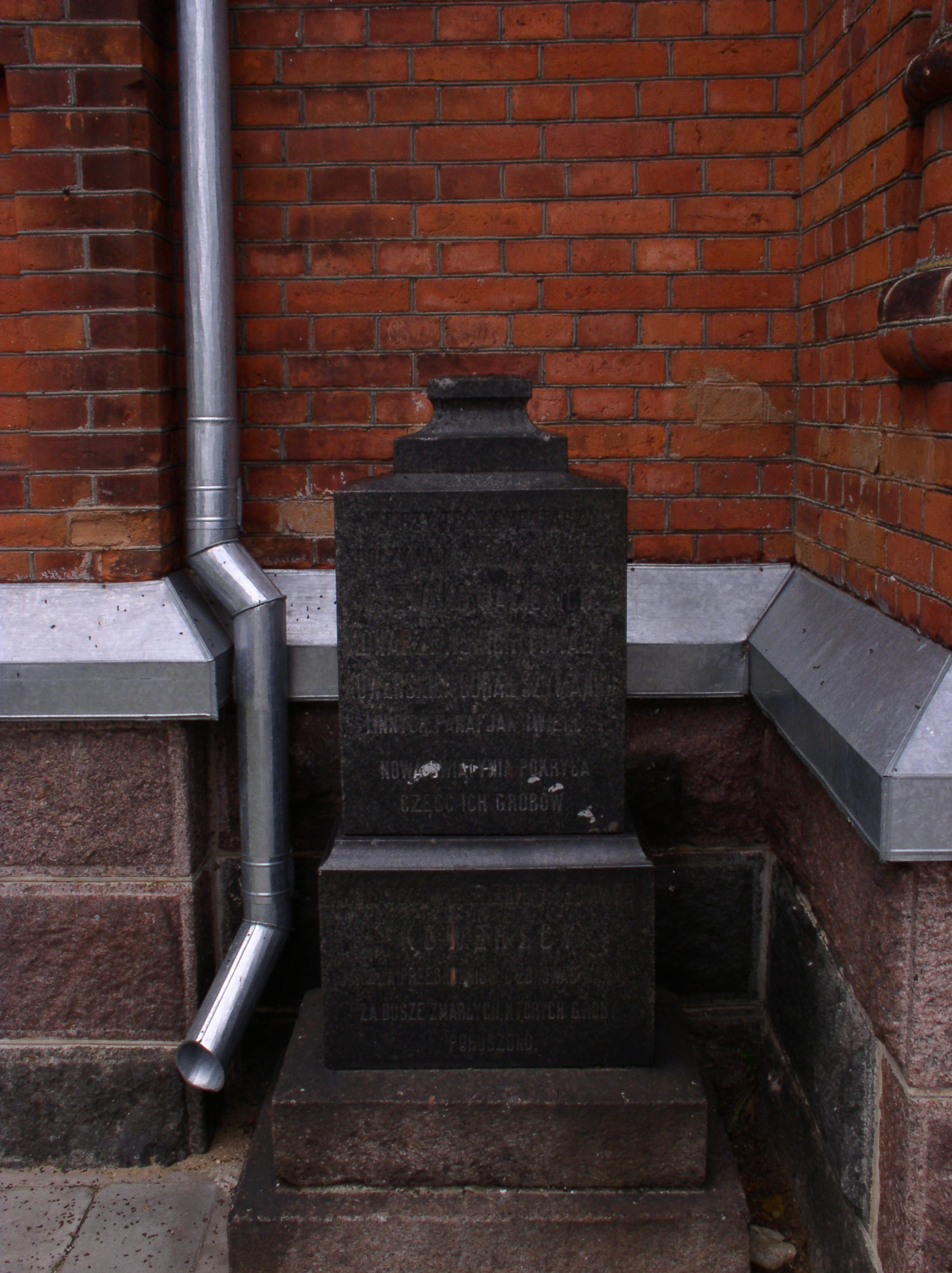 Church of Saint Alex. Ivyanets, Belarus.